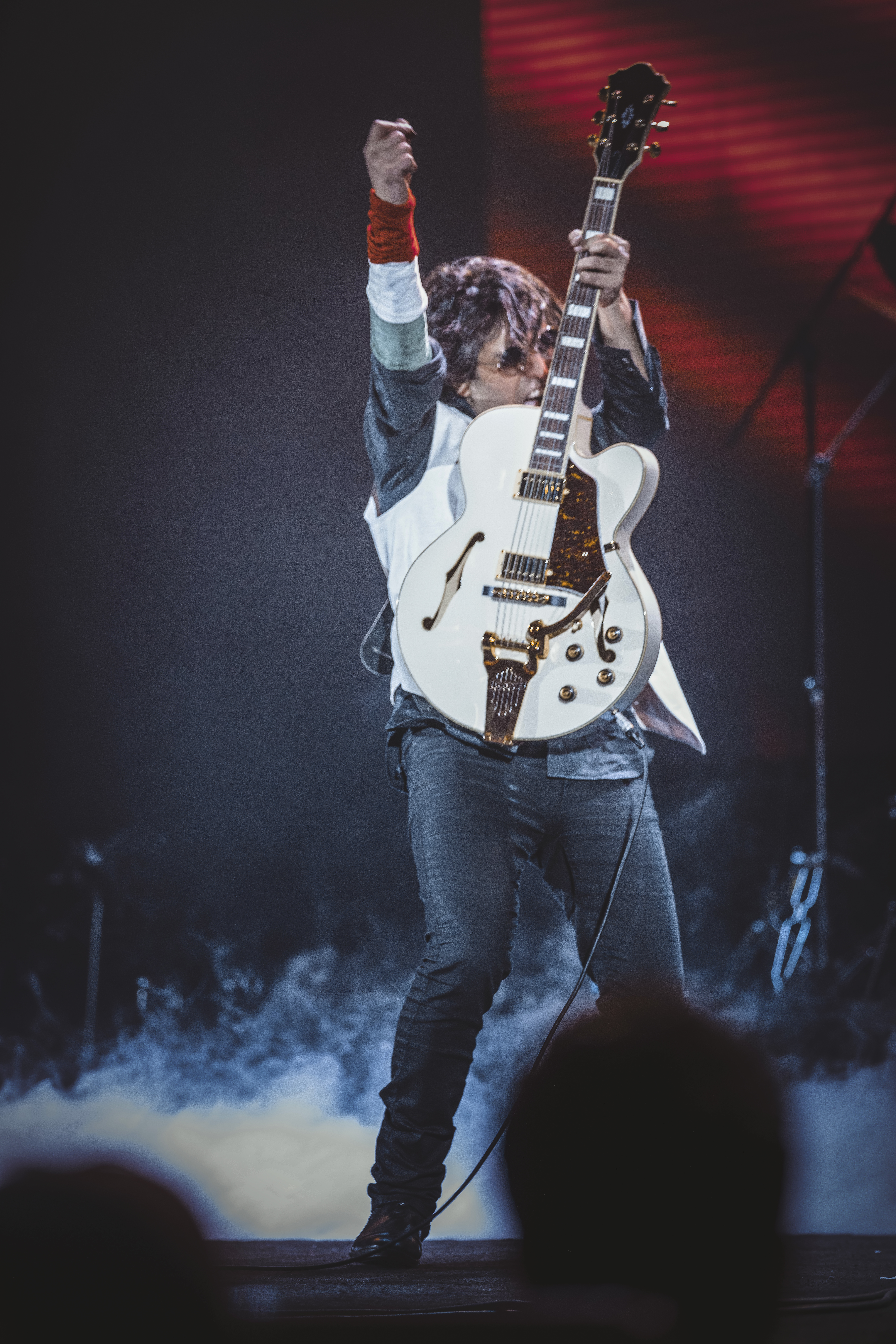 Kaveh Afagh live in concert